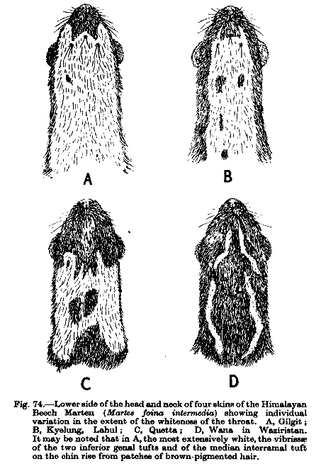 Various throat markings of the beech marten